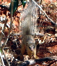 photo taken by Heather Nagy in Parc National de Kirindy Mitea, summer 2006